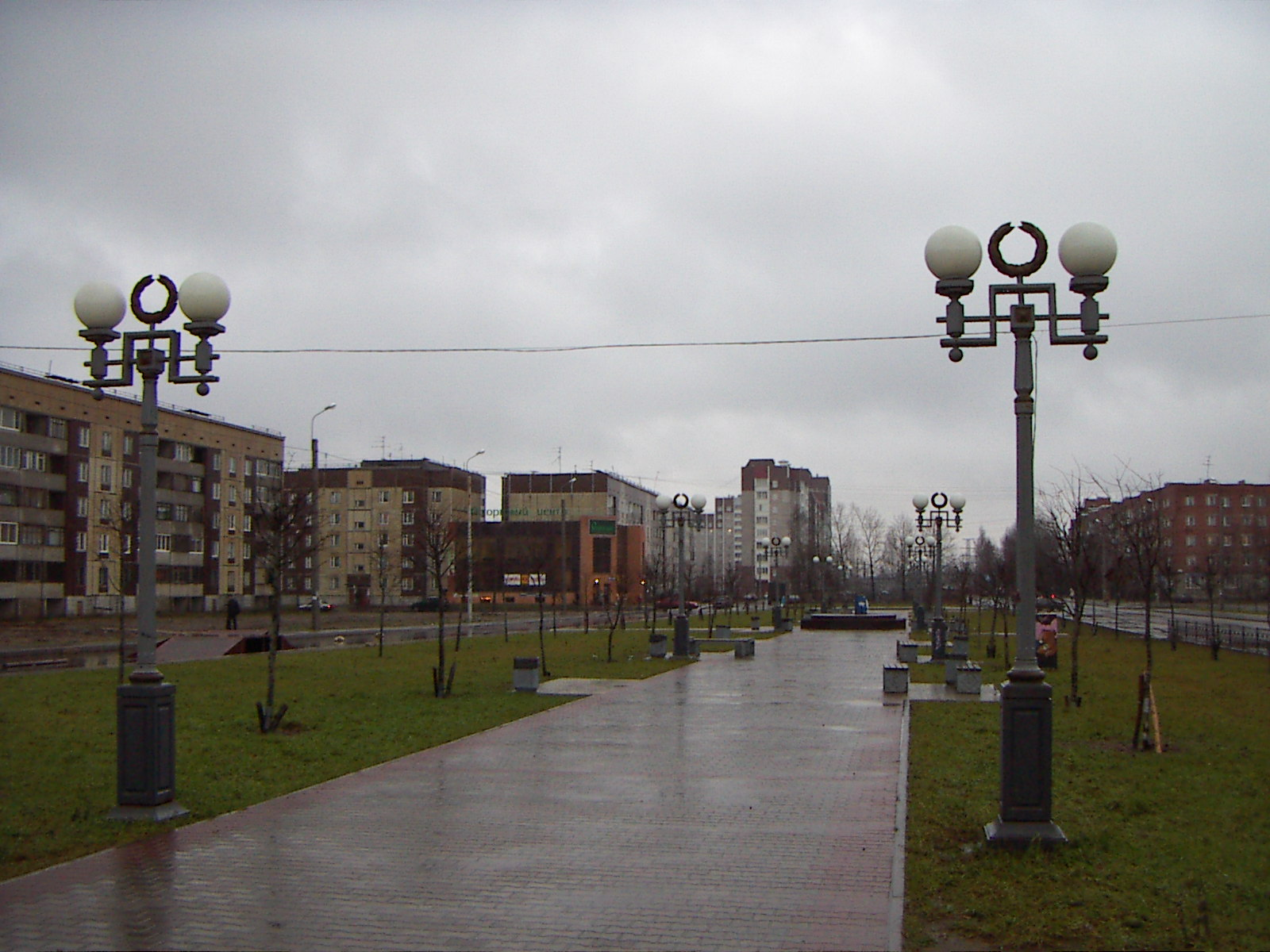 Roschinskaya street in Gatchina